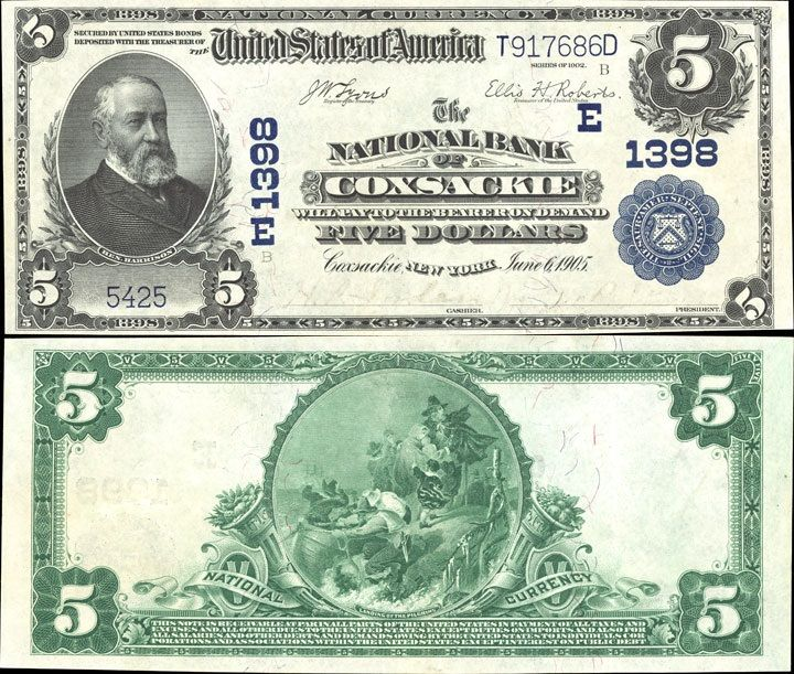 A local banknote of the United States of America depicting the Republican president Benjamin Harrison on its observe.